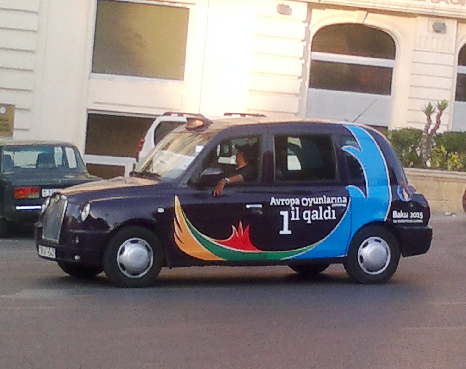 Baku Taxi with European Games 2015 Logo